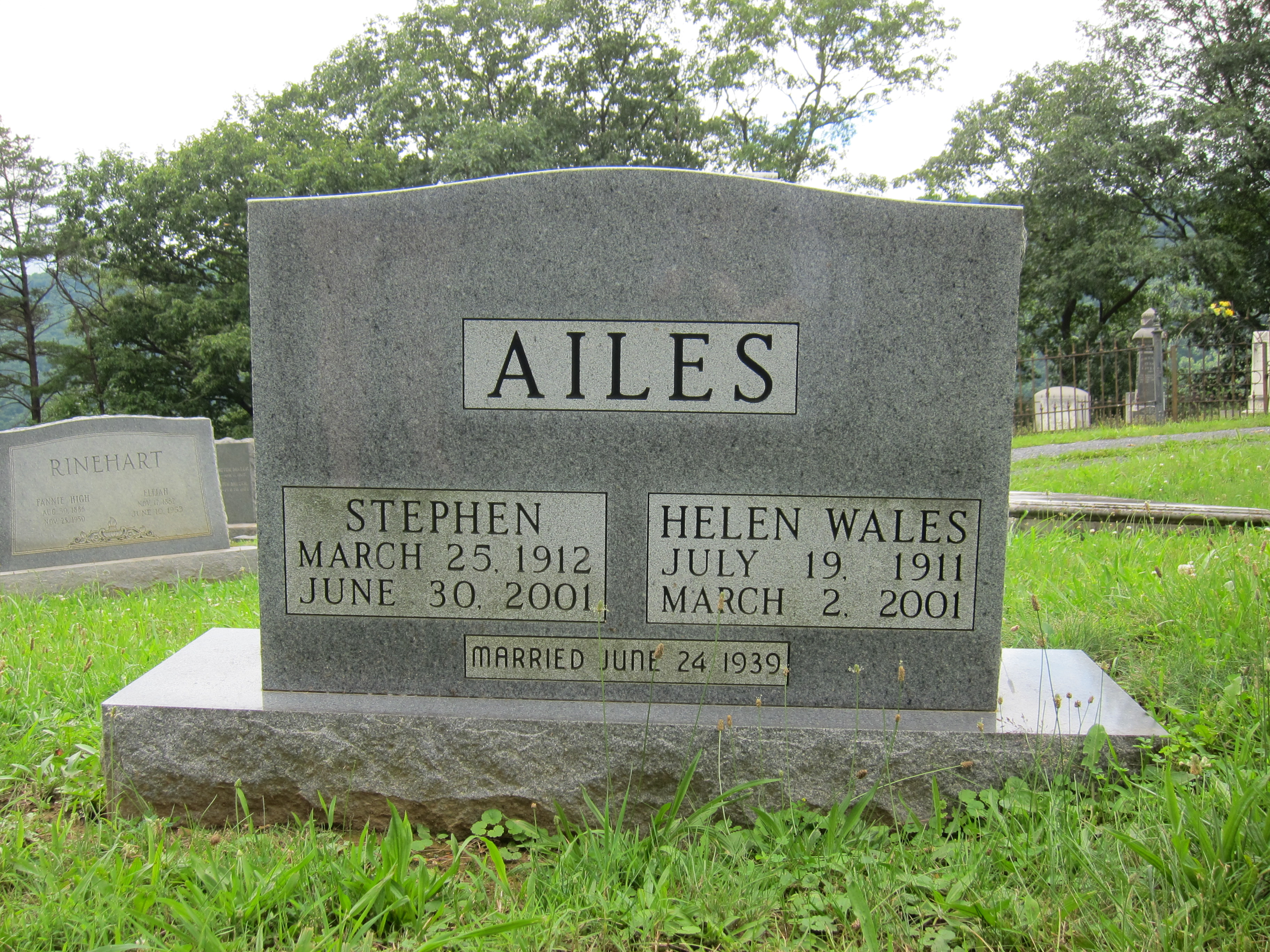 Interment site of Stephen Ailes and his wife Helen Wales Ailes. Stephen Ailes (March 25, 1912 – June 30, 2001) was a prominent member of the District of Columbia Bar and a partner in the firm of Steptoe & Johnson. He served as the United States Under Secretary of the Army from February 9, 1961 to January 28, 1964 and as United States Secretary of the Army from January 28, 1964 to July 1, 1965. He received his undergraduate education at Princeton University, and attended the law school of West Virginia University, where he was a member of Phi Kappa Psi Fraternity. Photographed on 13 July 2013.